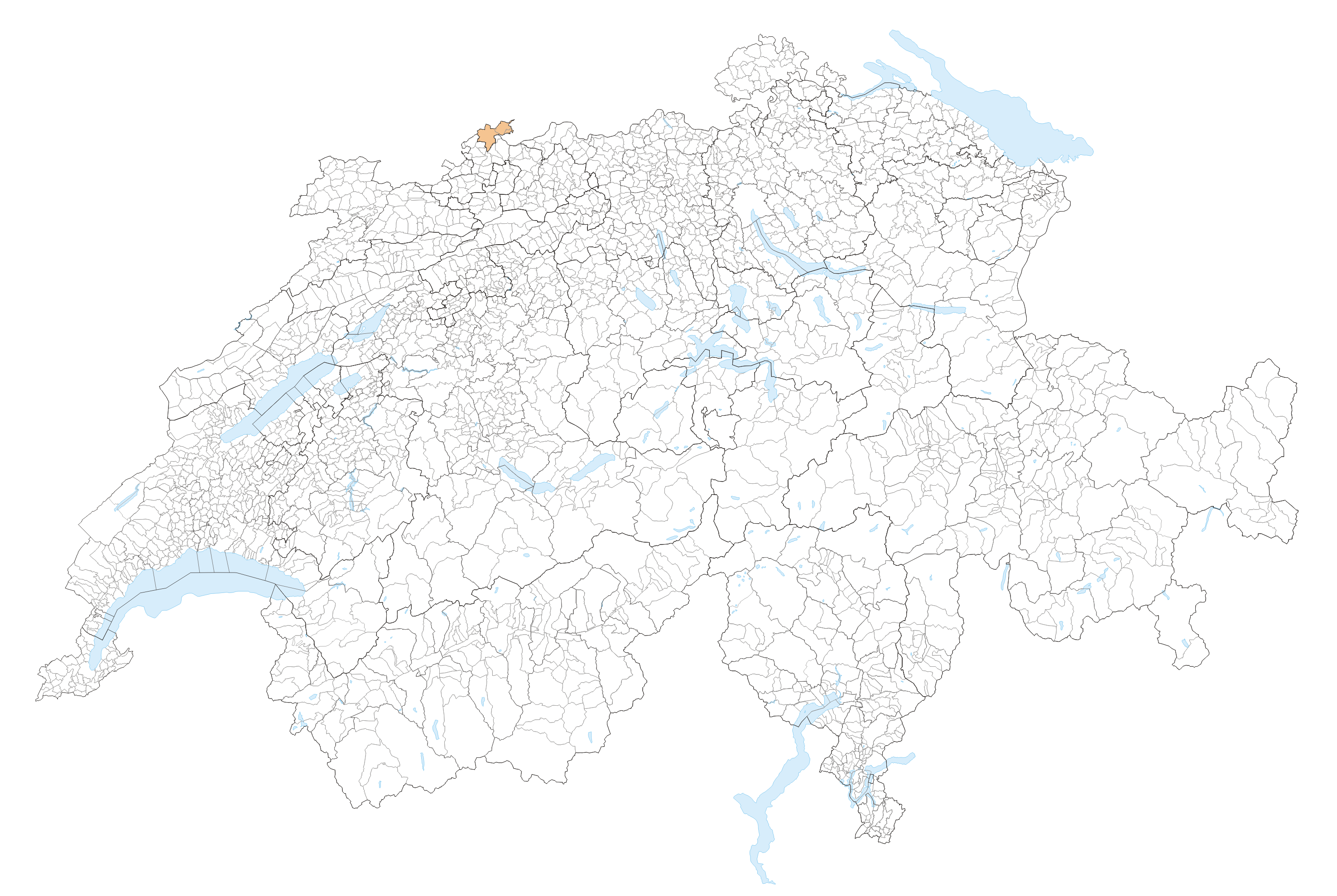 Kanton Basel Stadt